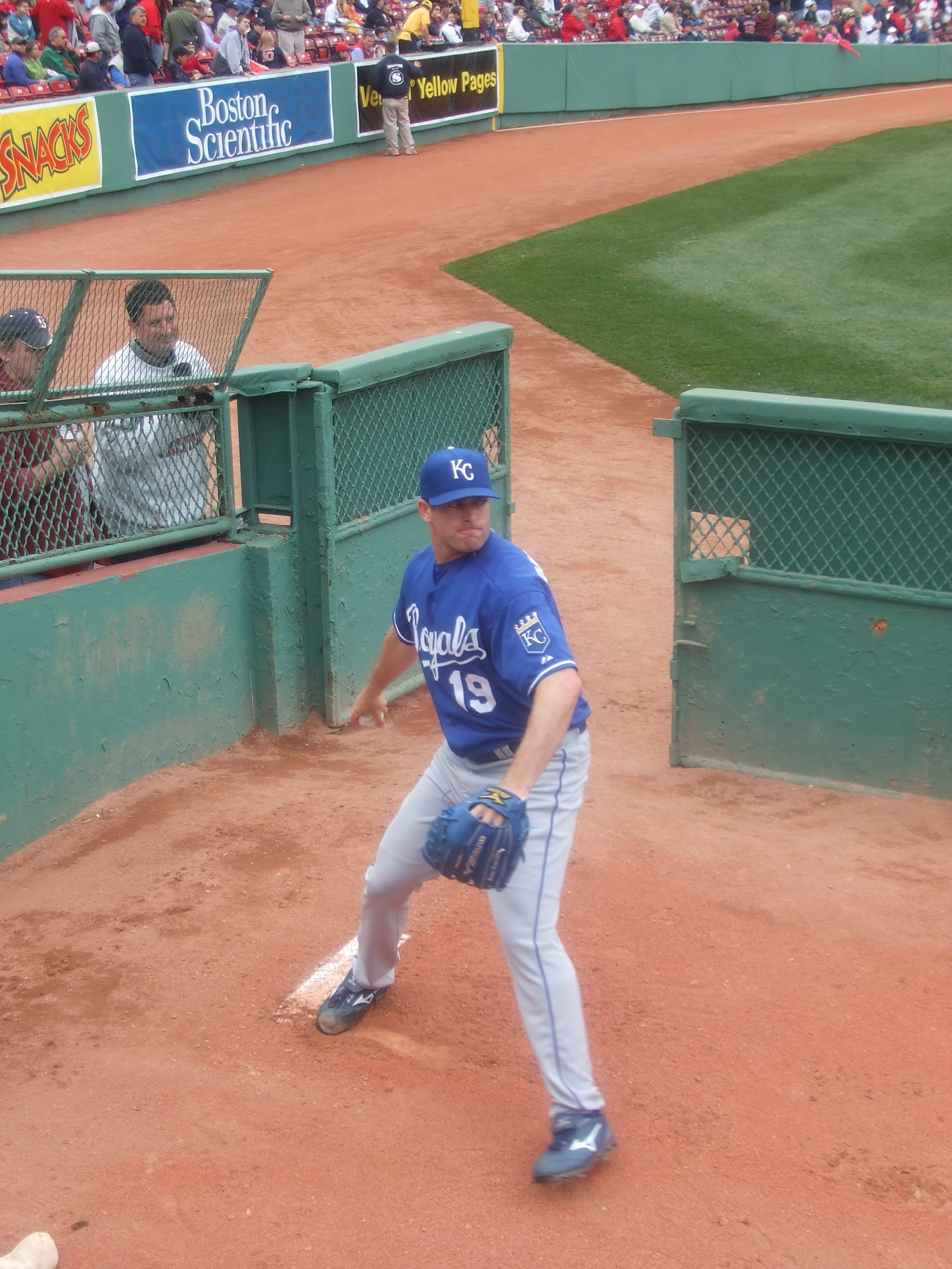 Photo of Brian Bannister warming up in the bullpen at Fenway Park before a Royals-Red Sox game on May 22, 2008. Taken by C. Brett Lockard. 03:31, 29 June 2008 . . Cbrett42 . . 2,136×2,848 (2.62 MB)